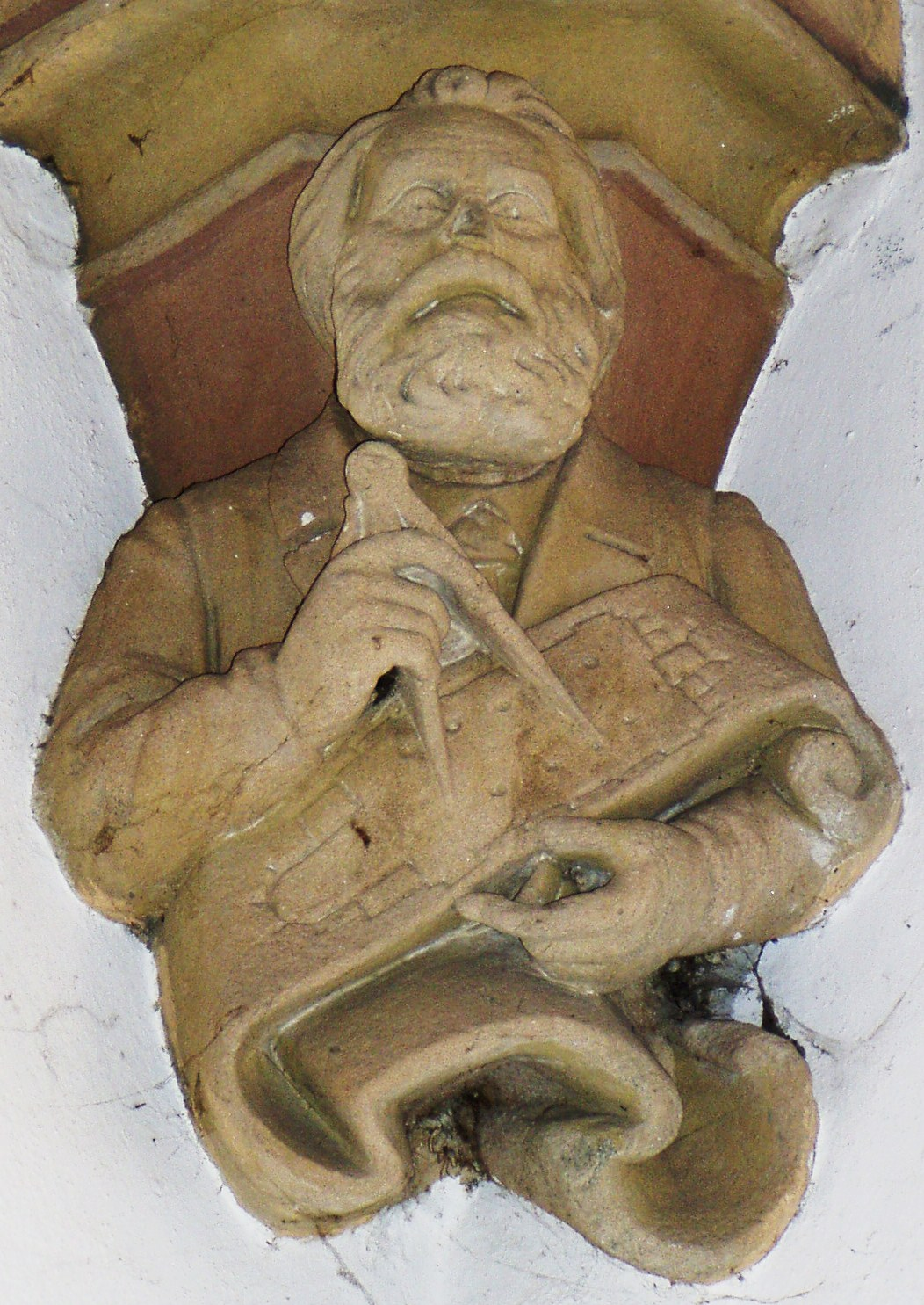 Bust of Andreas Lohrey (1843-1924), german architect, made by Valentin Weidner